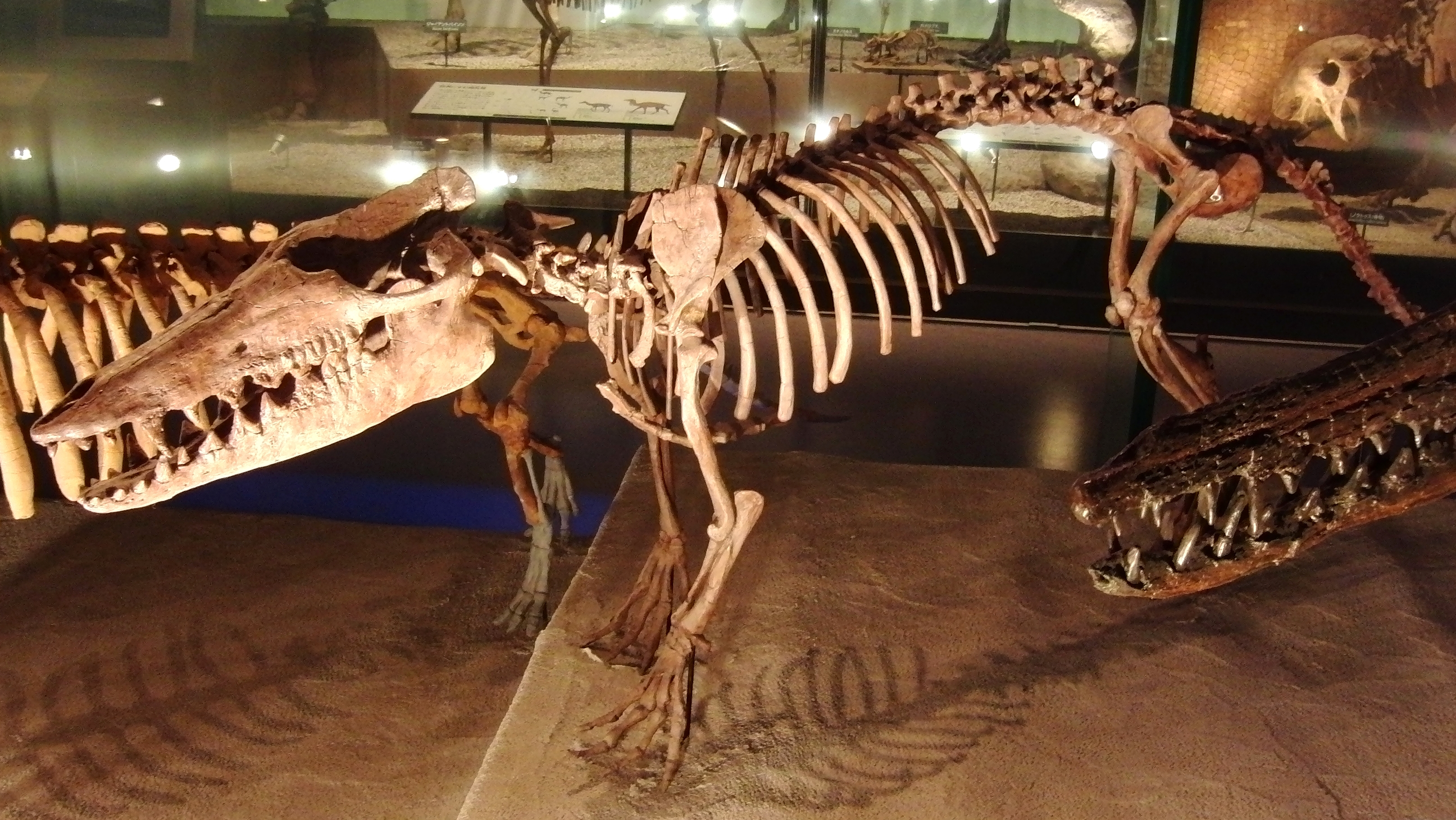 Skelton of Pakicetus attocki. Exhibit in the National Museum of Nature and Science, Tokyo, Japan.